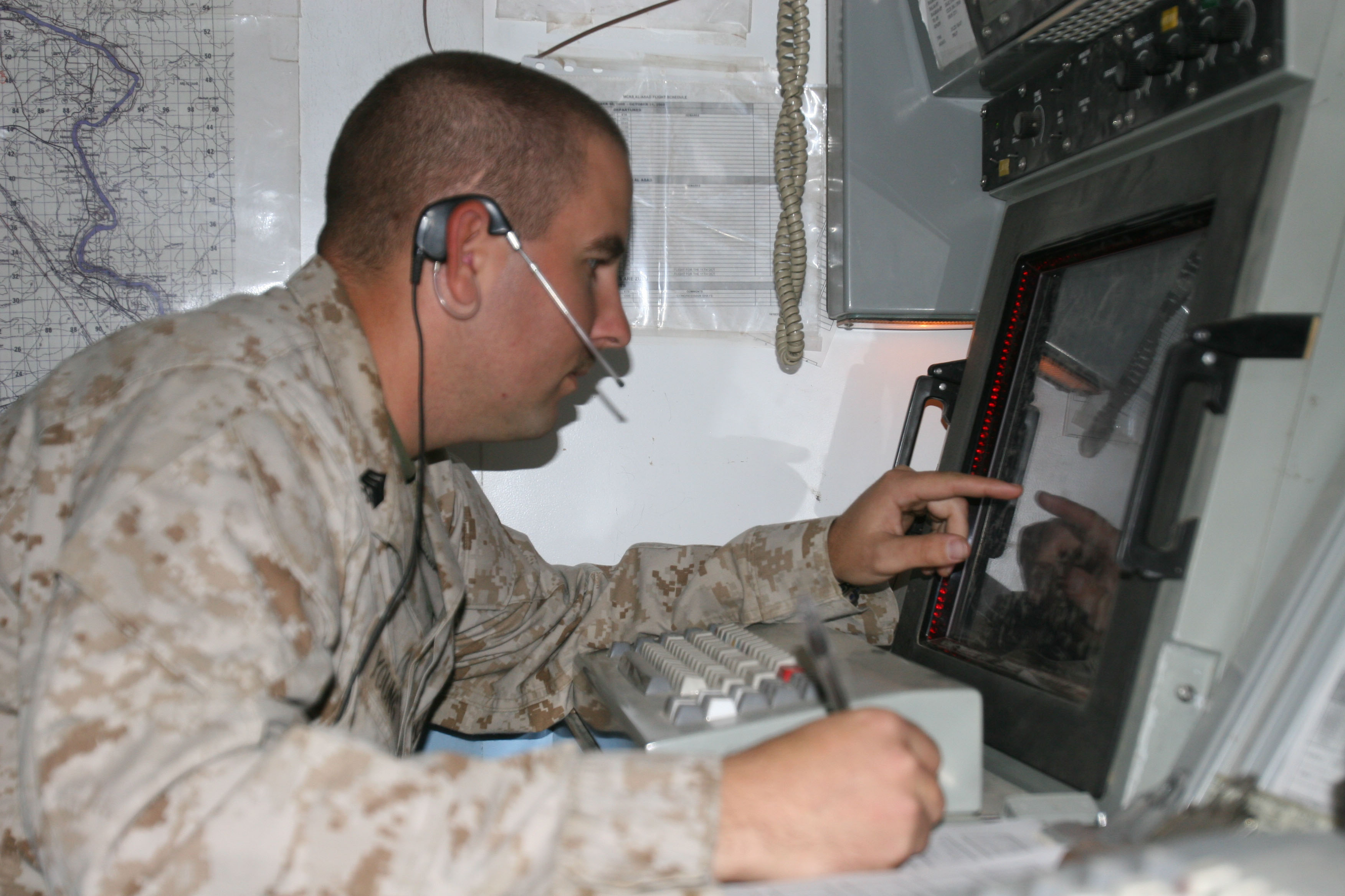 Sergeant Kurtis Young, an air traffic controller from Marine Air Control Squadron 1, Detachment C, identifies an aircraft inbound to the airfield, Oct. 10, at Al Asad, Iraq. Young, a Glendale, Ariz., native, is a member of the Al Asad ATC detachment which recently expanded its role from controlling aircraft in and around Al Asad, to broadcasting information via pictures across western Iraq. A Joint Interface Control Cell team from Al Udeid, Qatar, helped the Marines install and begin operating the tactical data links used to create and transmit a common tactical picture.